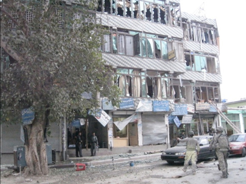 U.S. Soldiers survey the damage after a failed robbery attempt in front of a branch of Kabul Bank in Jalalabad, Nangarhar province, Afghanistan. The heist was attempted by a group of 12 armed bandits, who were surrounded and overwhelmed by a combination of Afghan and U.S. Army Forces, including soldiers who deployed from Schweinfurt, Germany, with the 3rd Platoon of the 630th Military Police Company.